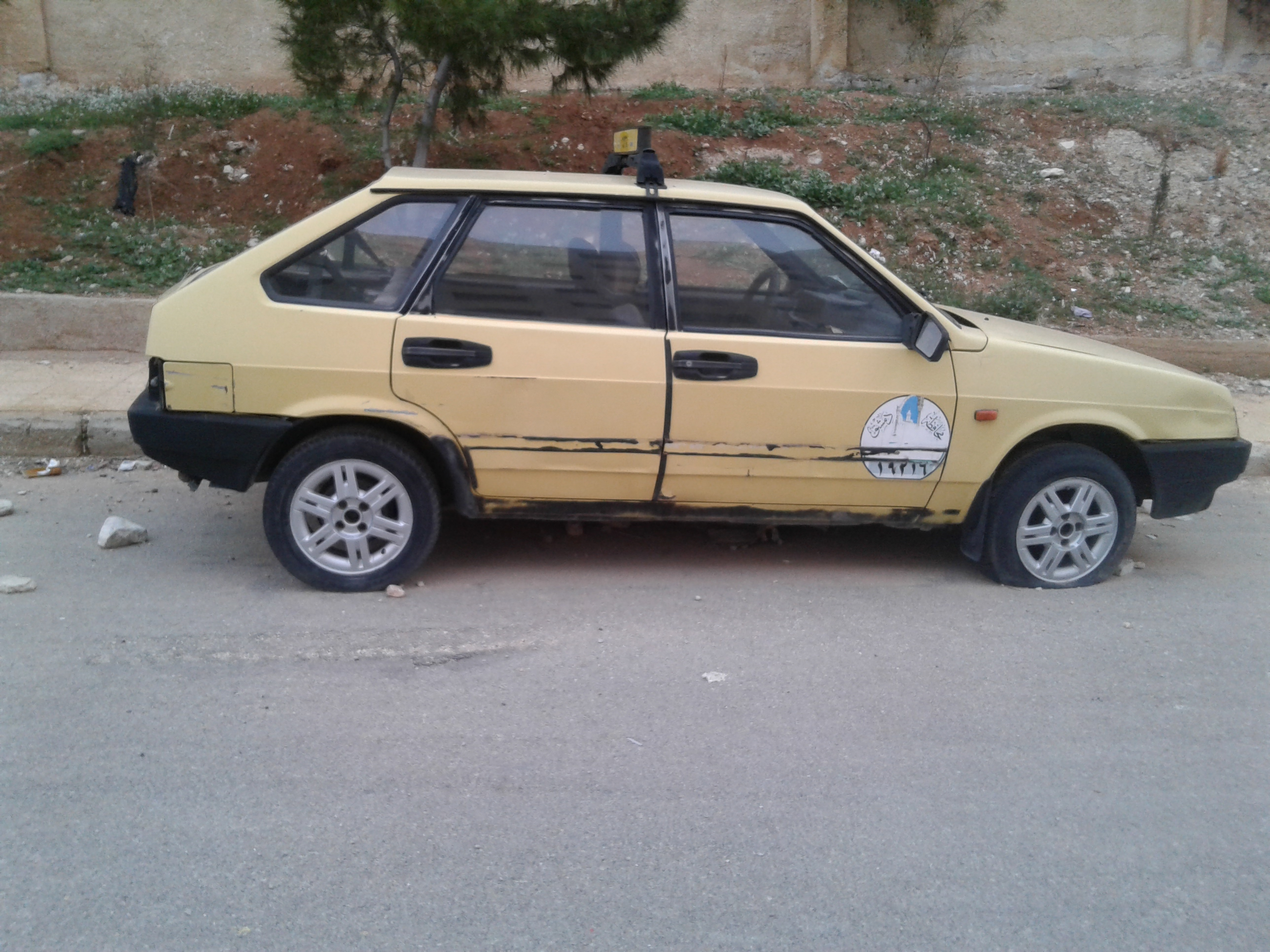 صورة لسيّارة أُجرة في مدينة دمشق.